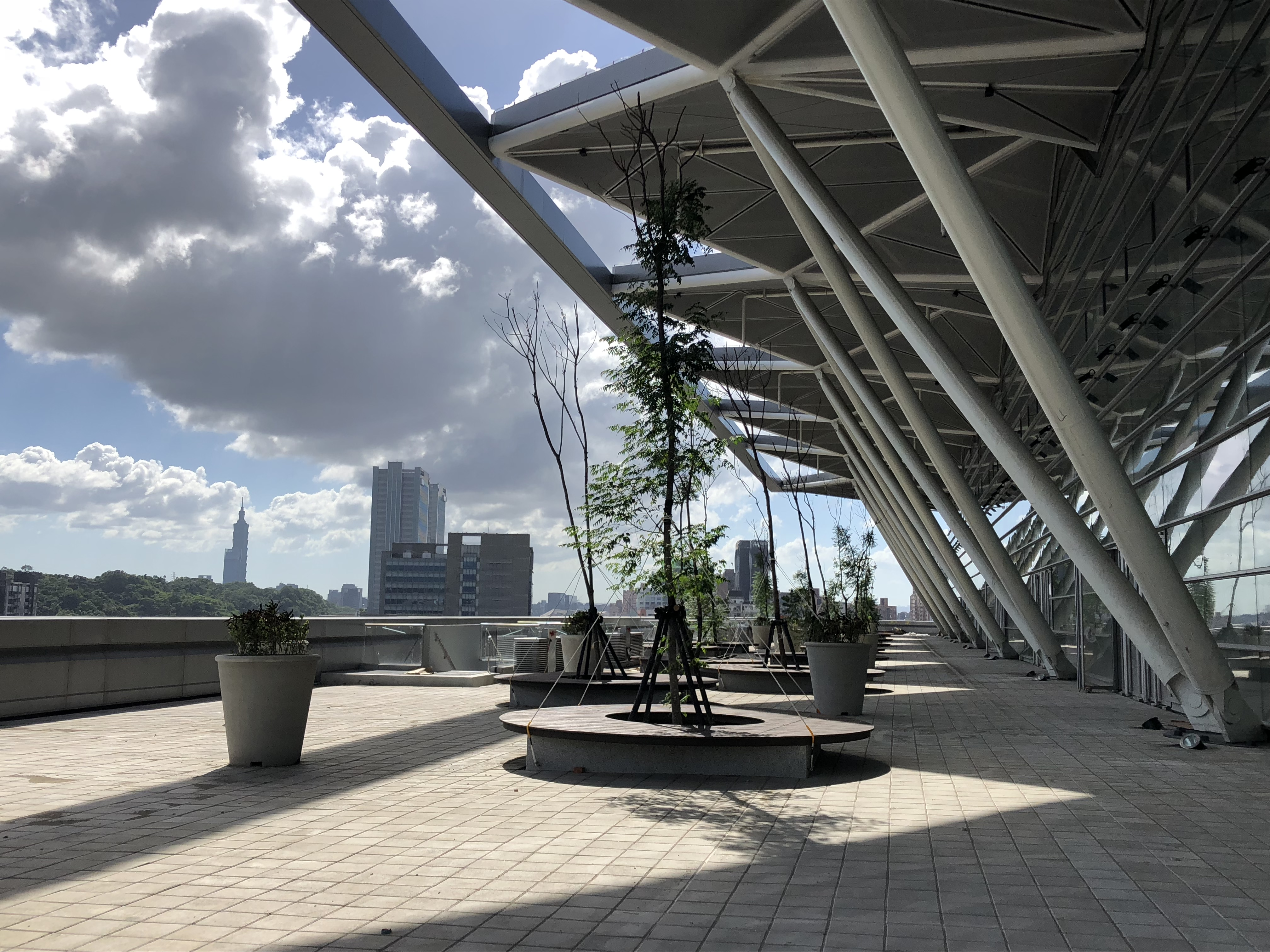 TNEC 2 - 7th floor sky garden